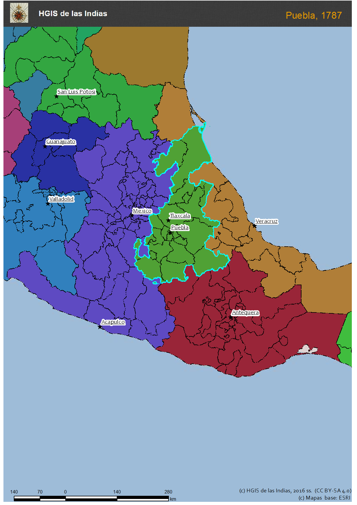 Intendency of Puebla by the time of its creation (1787).